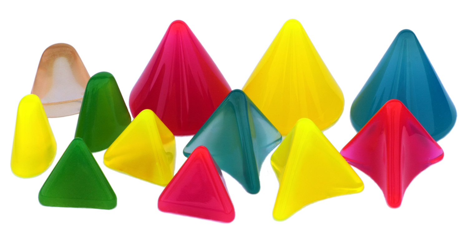 plastic media in different geometrical shapes (example without abrasive mineral)